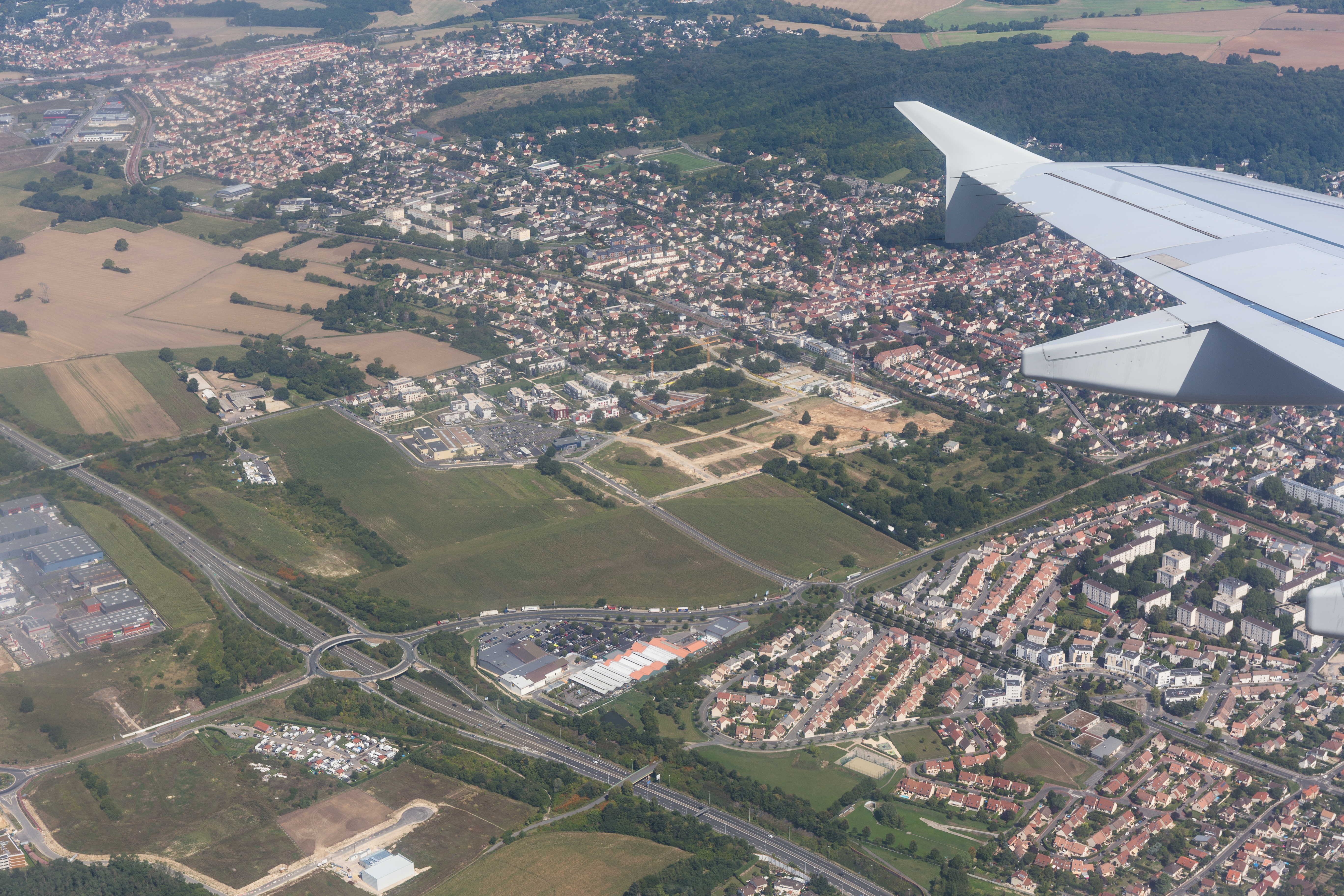 Aerial view of Bessancourt during a flight from ARN to CDG.